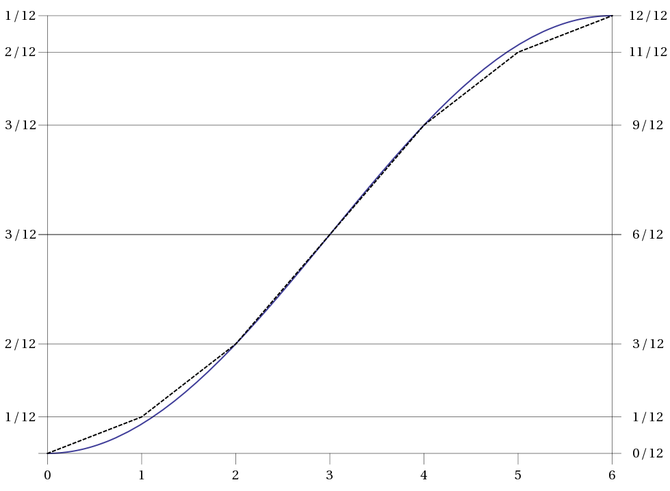 Rule of twelfths for approximation of a sine-function.